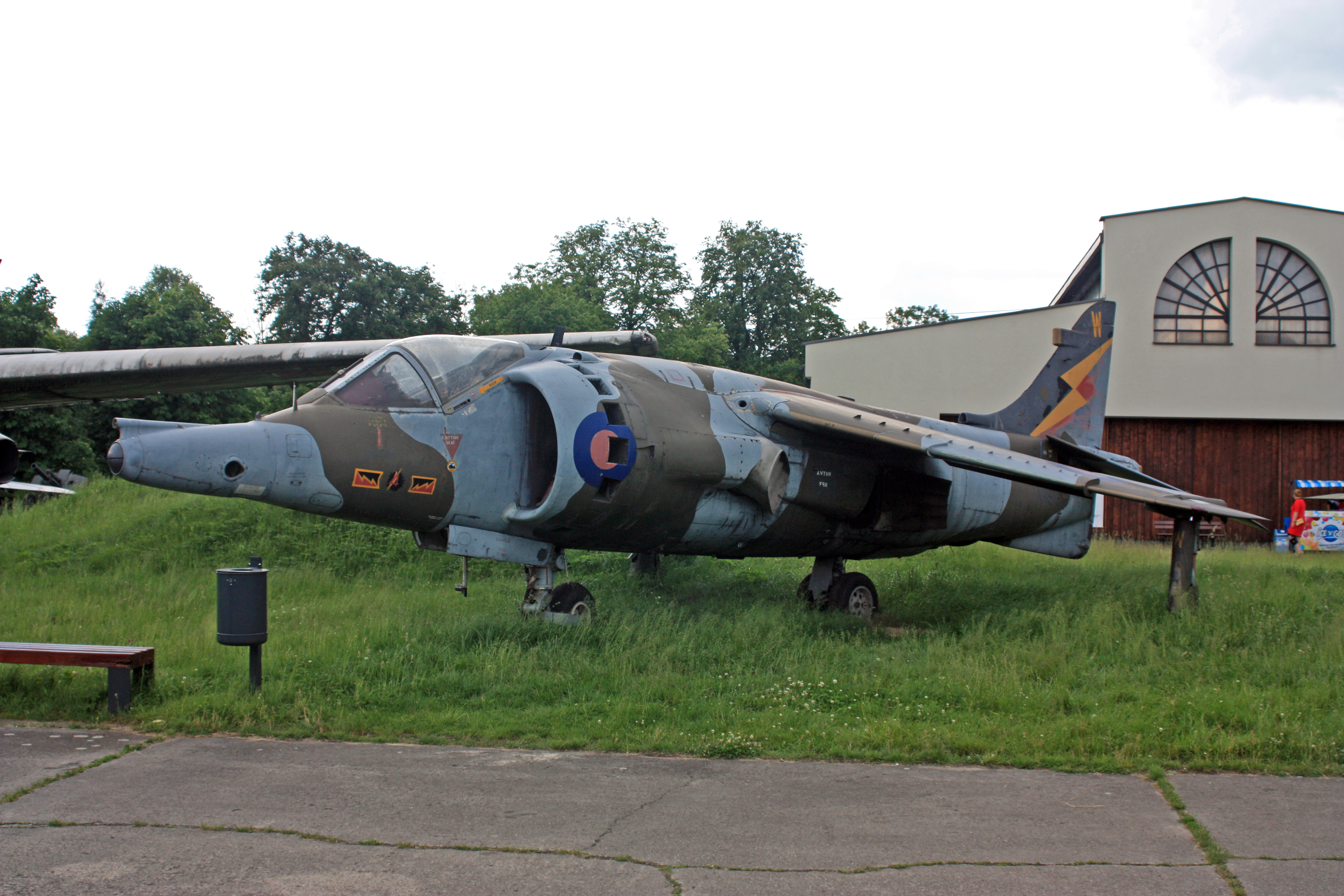 Hawker Siddeley Harrier GR.3 XW 919 from the collection of the Aviation Museum in Krakow